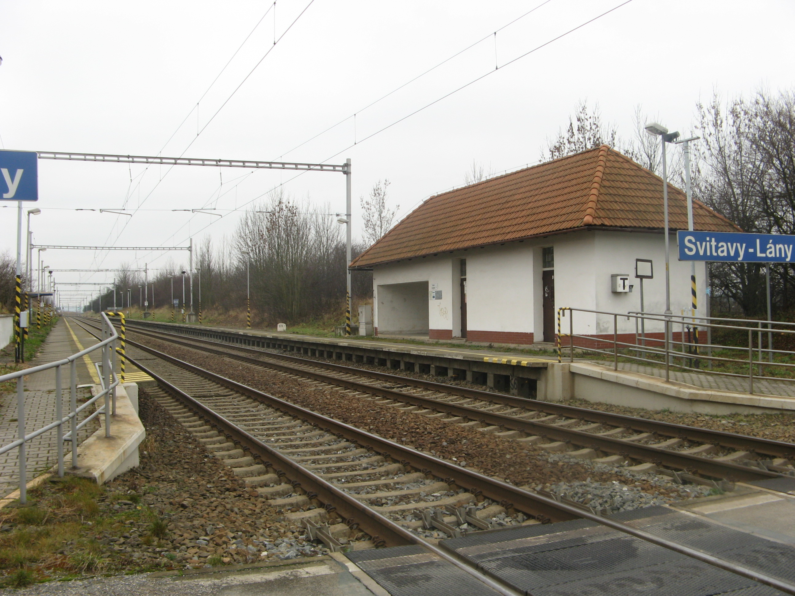 Train station Svitavy-Lány, Czech Republic